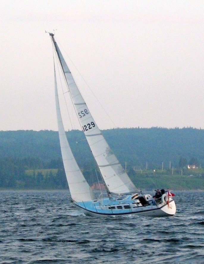 This is the Paceship Chance 32-28 Petrel on the Cabot Strait.